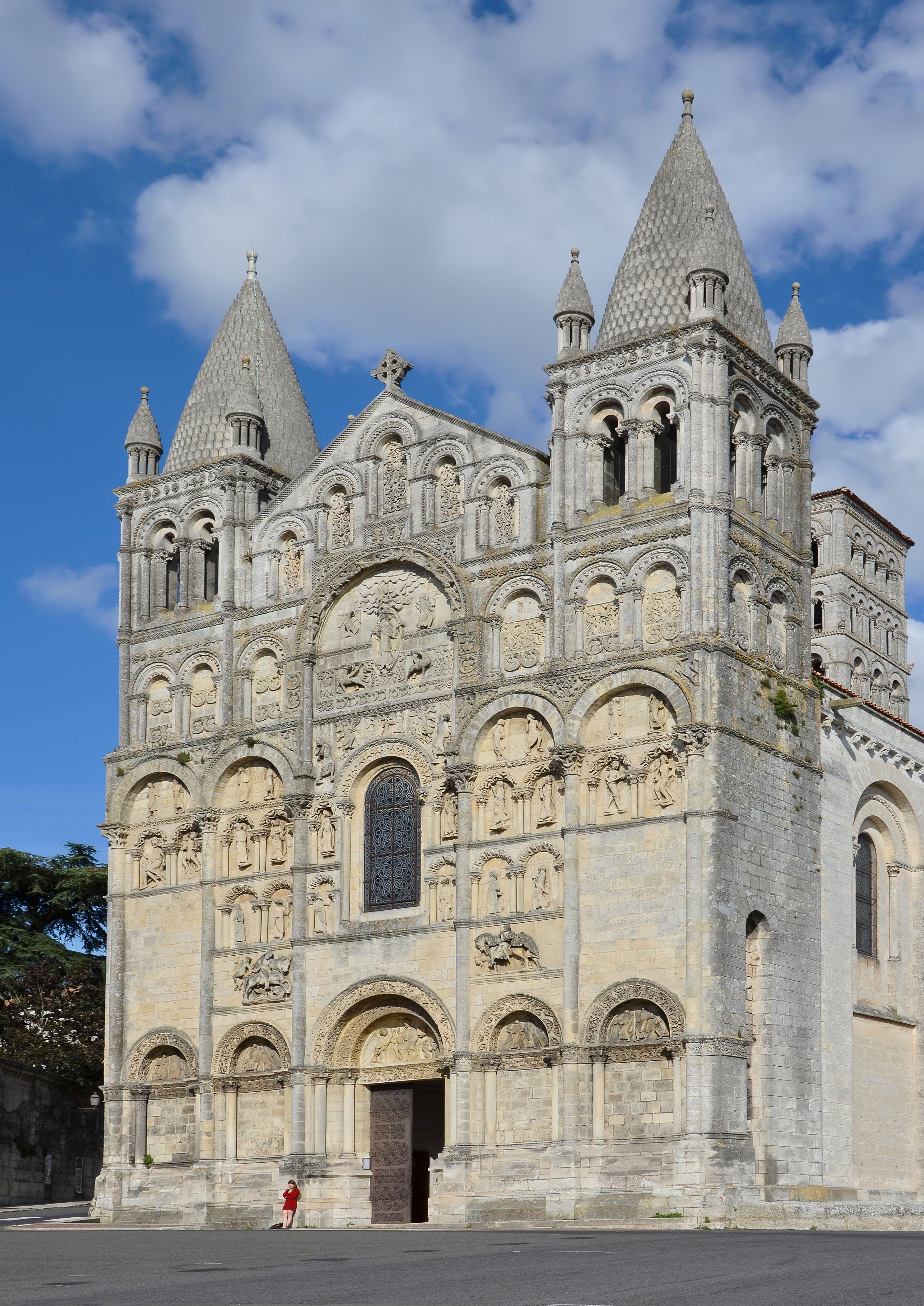 Facade of the cathedral (12th and 19th centuries), Angoulême, Charente, France.